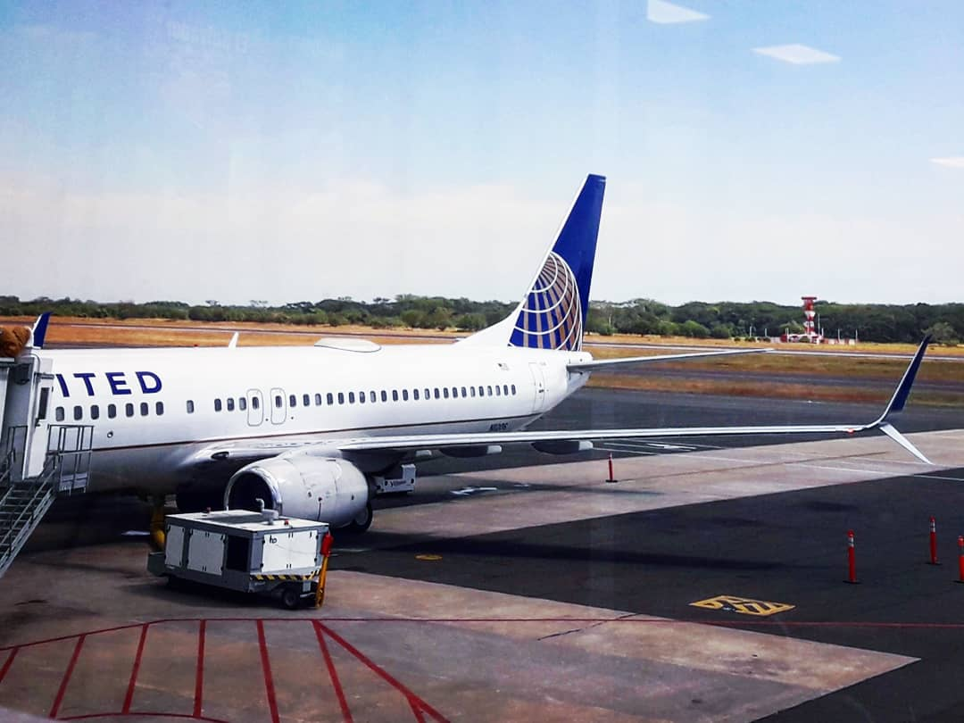 Boeing 737-800 of United Airlines, on gate 10 at Monsenor Oscar Arnulfo Romero International Airport